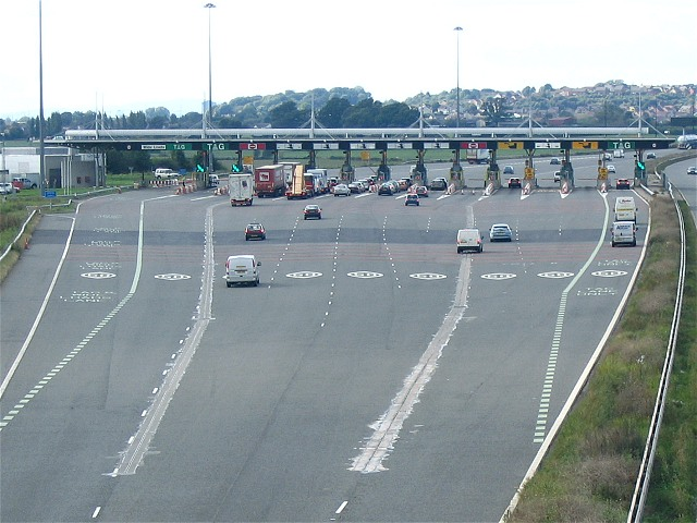 M4 Tolls for second Severn crossing As seen from the bridge to the east.